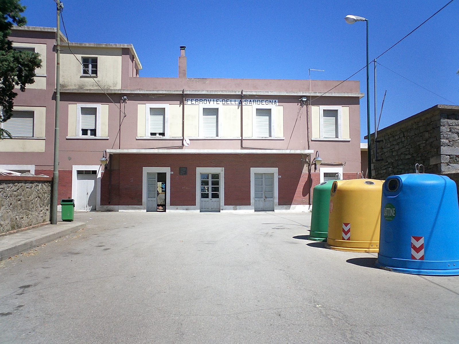 The Mandas railway station, in Sardinia, Italy, seen from the street